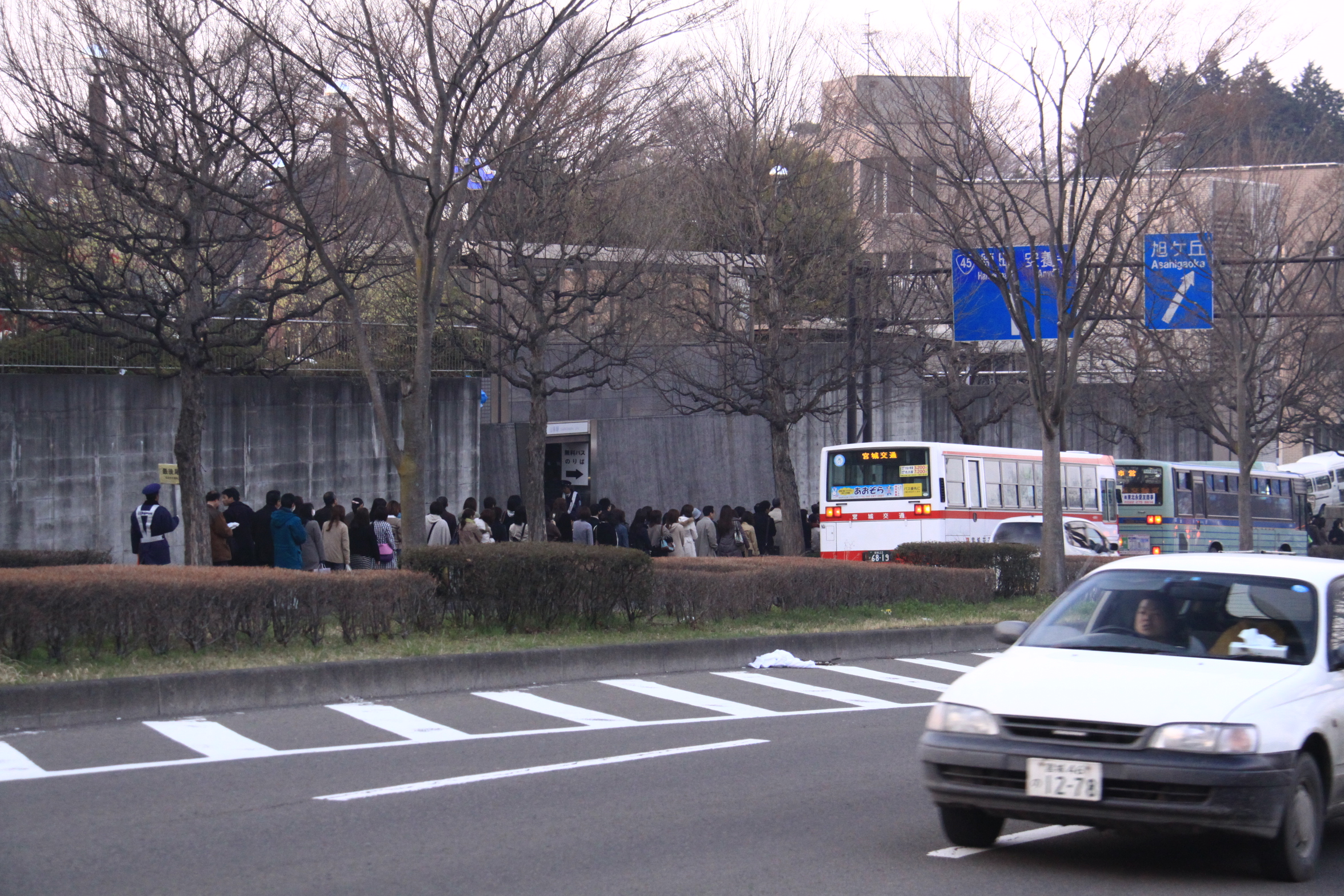 It resumed operations in a limited section in Sendai City Subway Line that had been suspended due to the earthquake. In the Dainohara station that had become a terminal station on the north side, a long row of people who transferred to the bus at the morning and evening rush was able to be done.